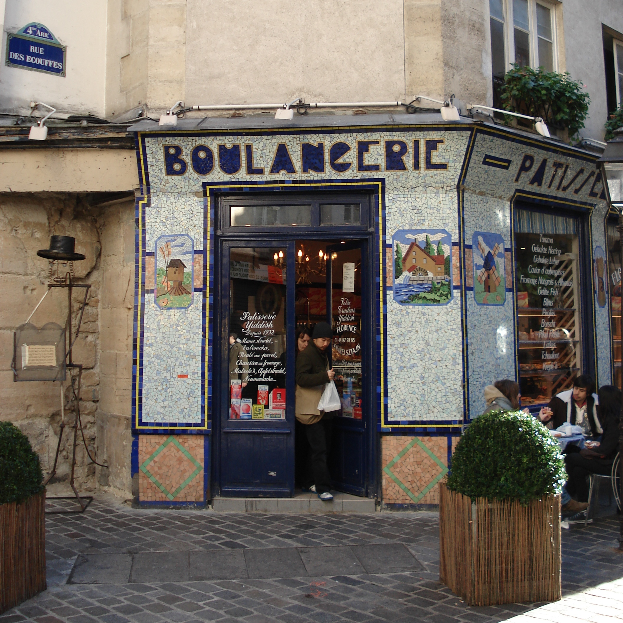 Baker shop in Paris